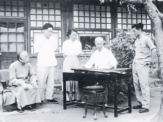 Guqin Research Society, with Pu Qi on the left hand